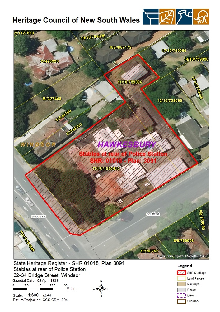 Windsor Police Station Stables: SHR Plan No 3091